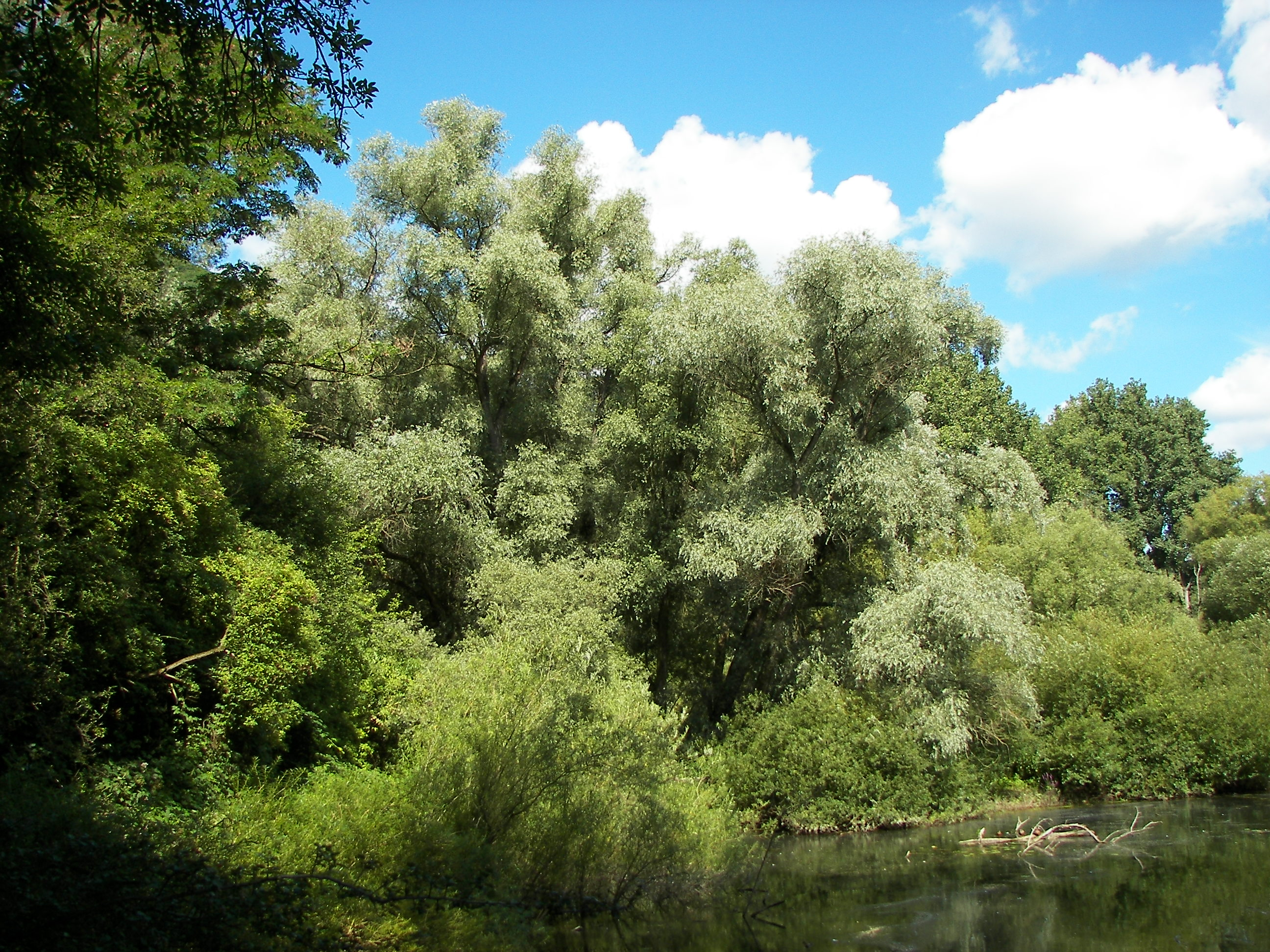 White Willow (Salix alba), Location: Riparian forest near Bingen, Rhineland-Palatinate, Germany